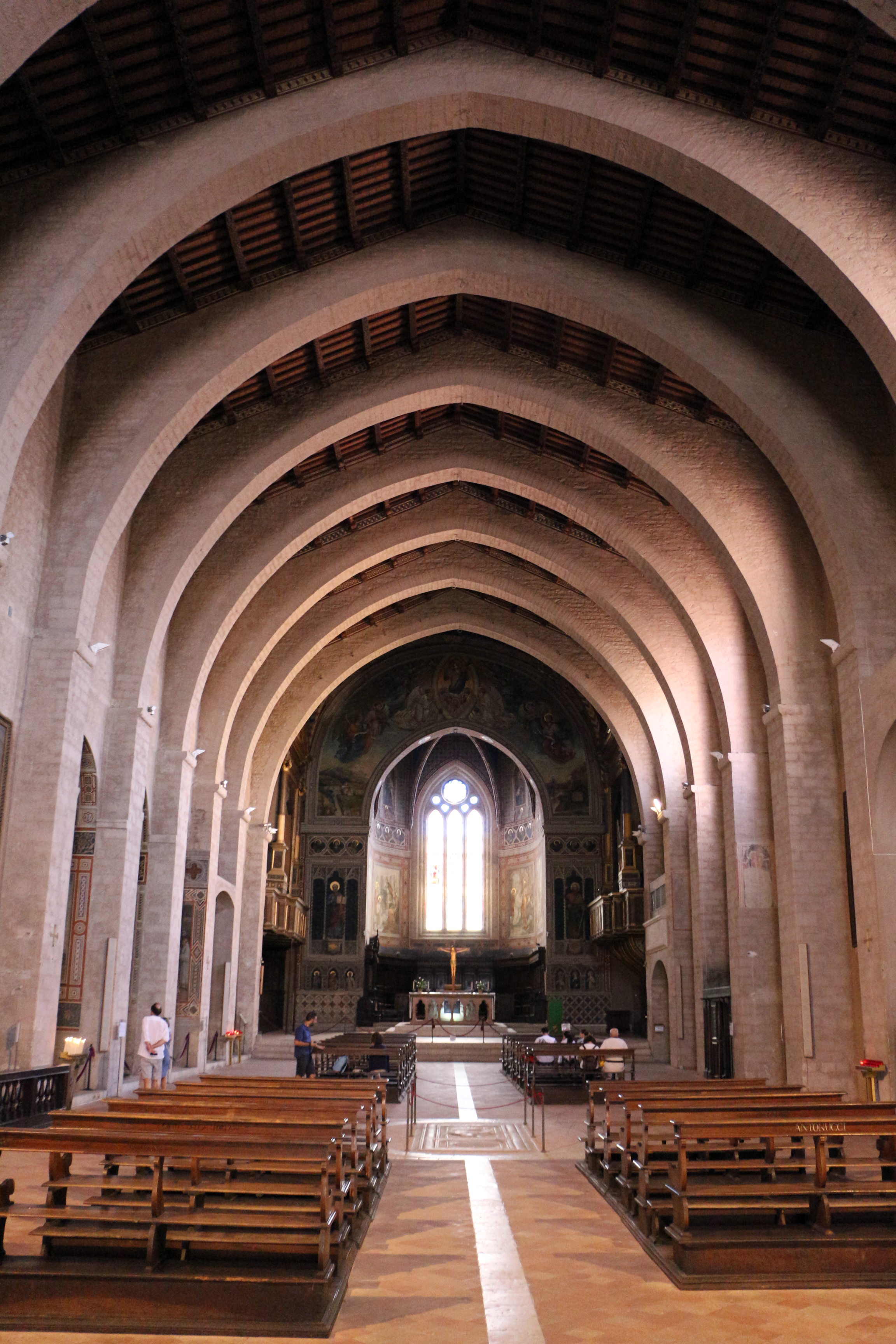 Duomo (Gubbio) - Interior